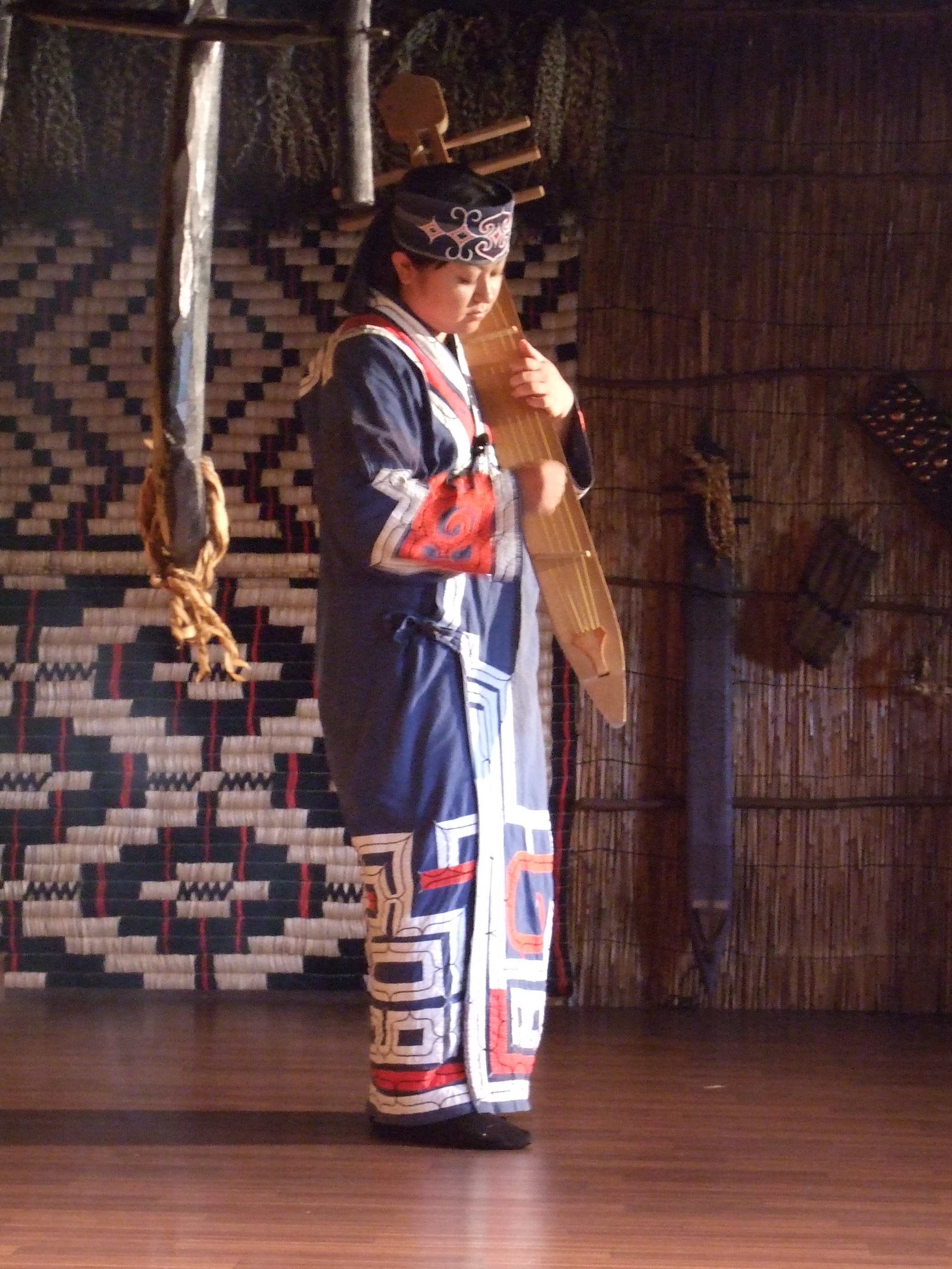 Traditional Ainu music instrument demonstration.